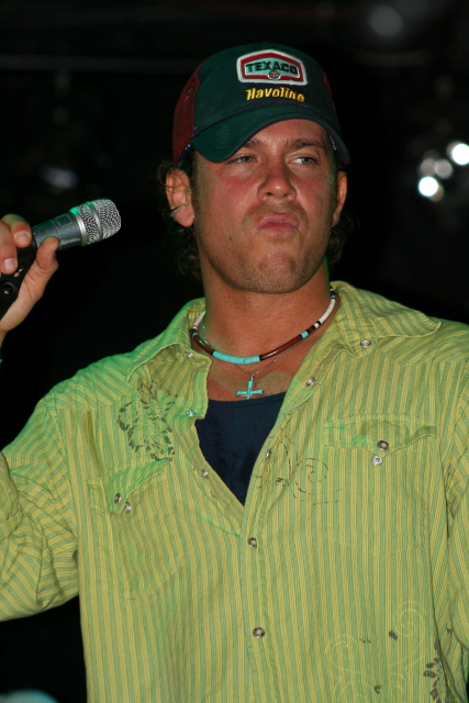 Christian Kane conert in Los Angeles for the Angel "Booster Bash".